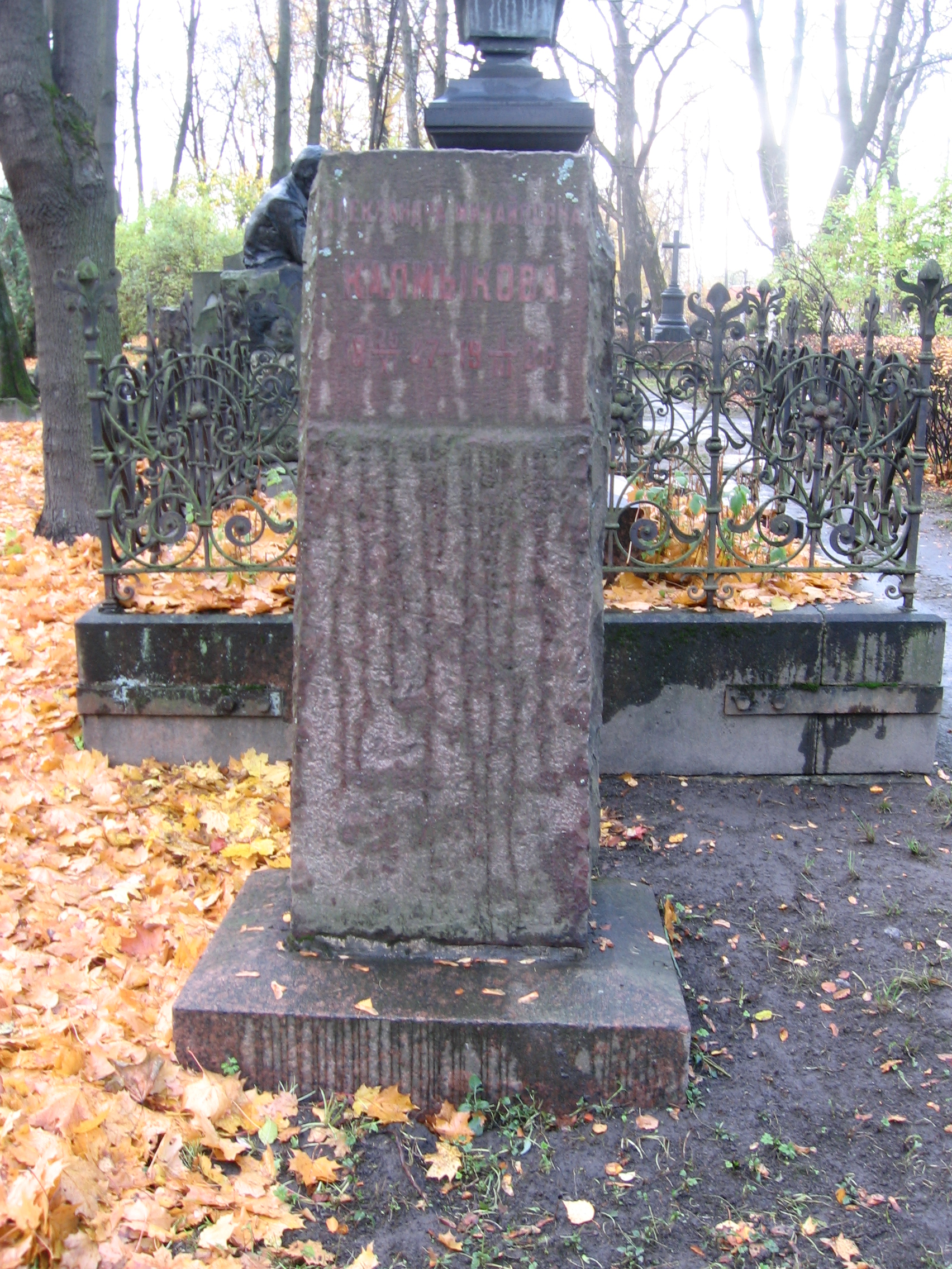 Grave of Alexandra Kalmykova